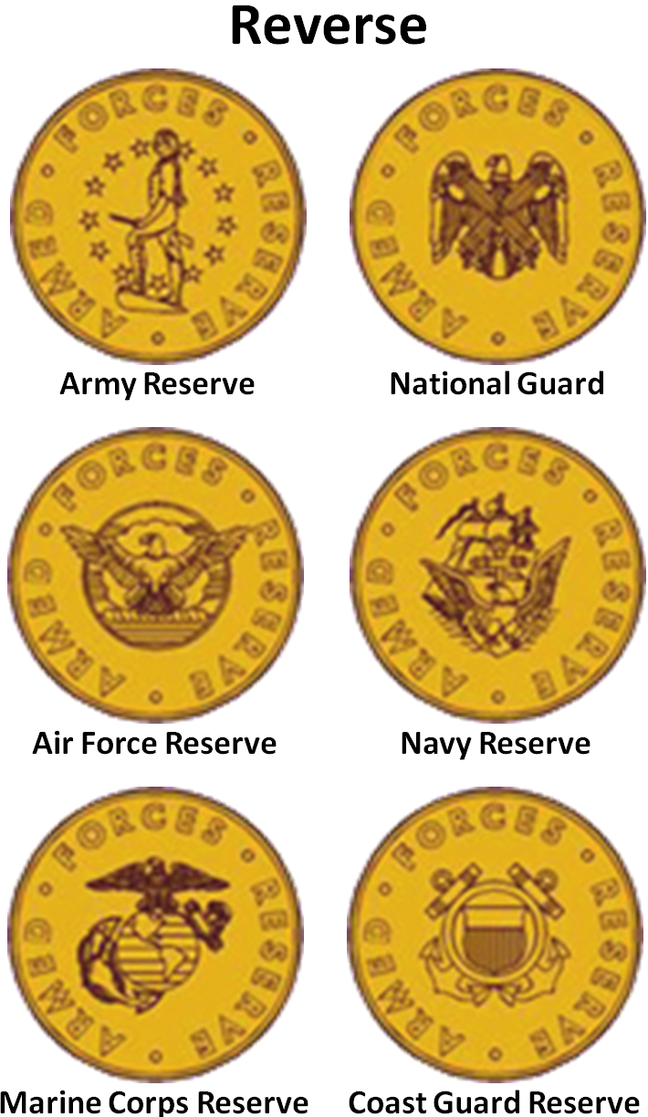 Reverse sides of the U.S. Military's Armed Forces Reserve Medal, which are unique for each branch of service